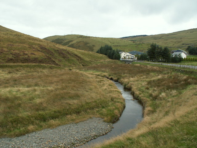 Eisteddfa Gurig & Afon Tarrenig. Afon Tarennig and the A44 at Eisteddfa Gurig